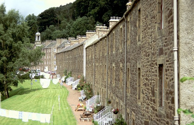 Caithness Row, New Lanark Caithness Row is listed as "late C18" . In the background are New Buildings, dated 1798, with the distoinctve cupola .